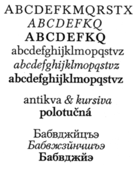 Kolektiv typefaces by Dufa, Týfa, Míšek: antiqua (1953) and grazhdanka (1954–55)